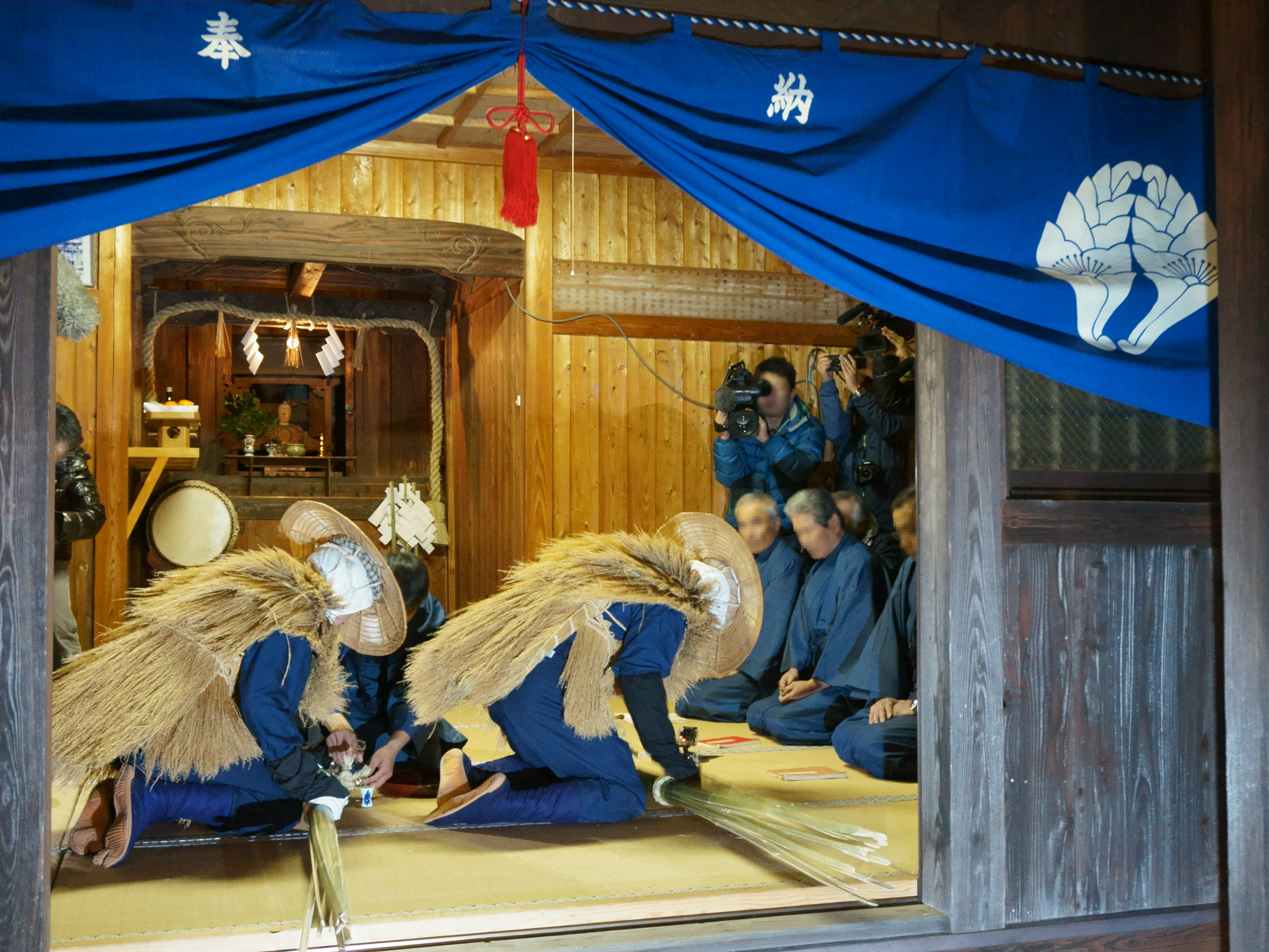 A scene of "Mishima no Kasedori" event, at Kumano Shrine, in Mishima, Hasuike, Saga city.